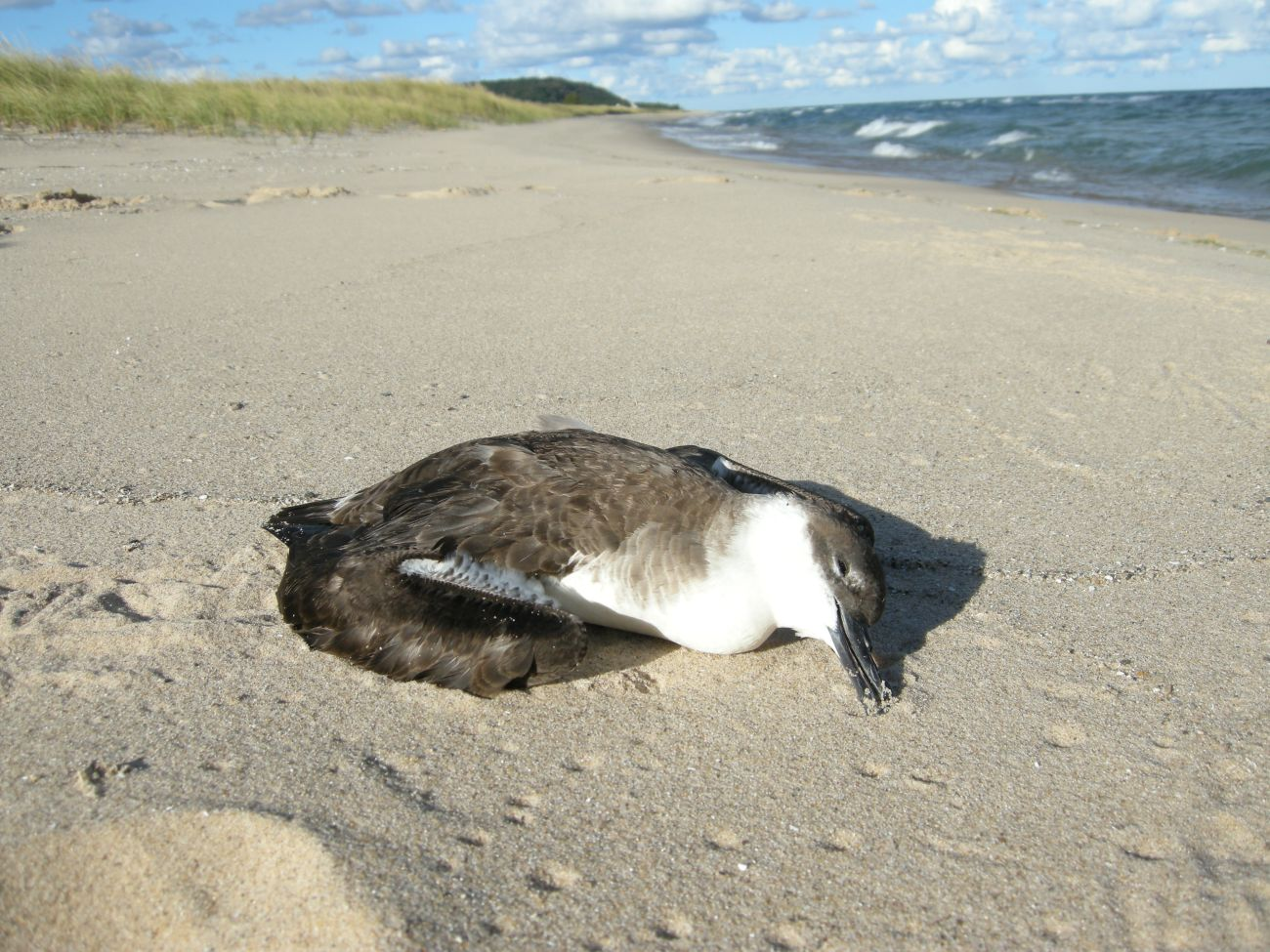 Great Shearwater specimen (as discovered), Sleeping Bear Dunes NL, September 9, 2012